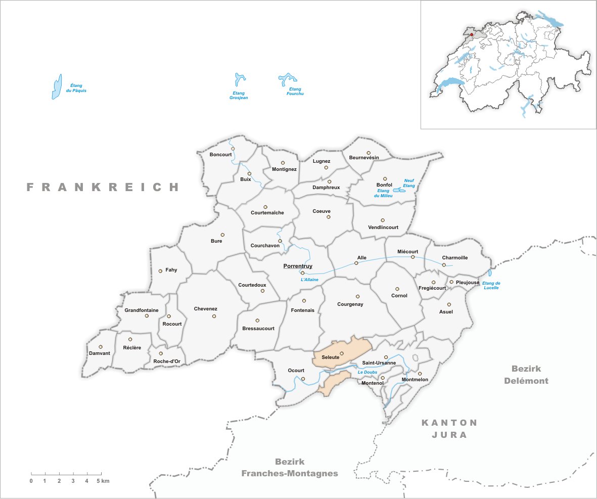 Municipality Seleute